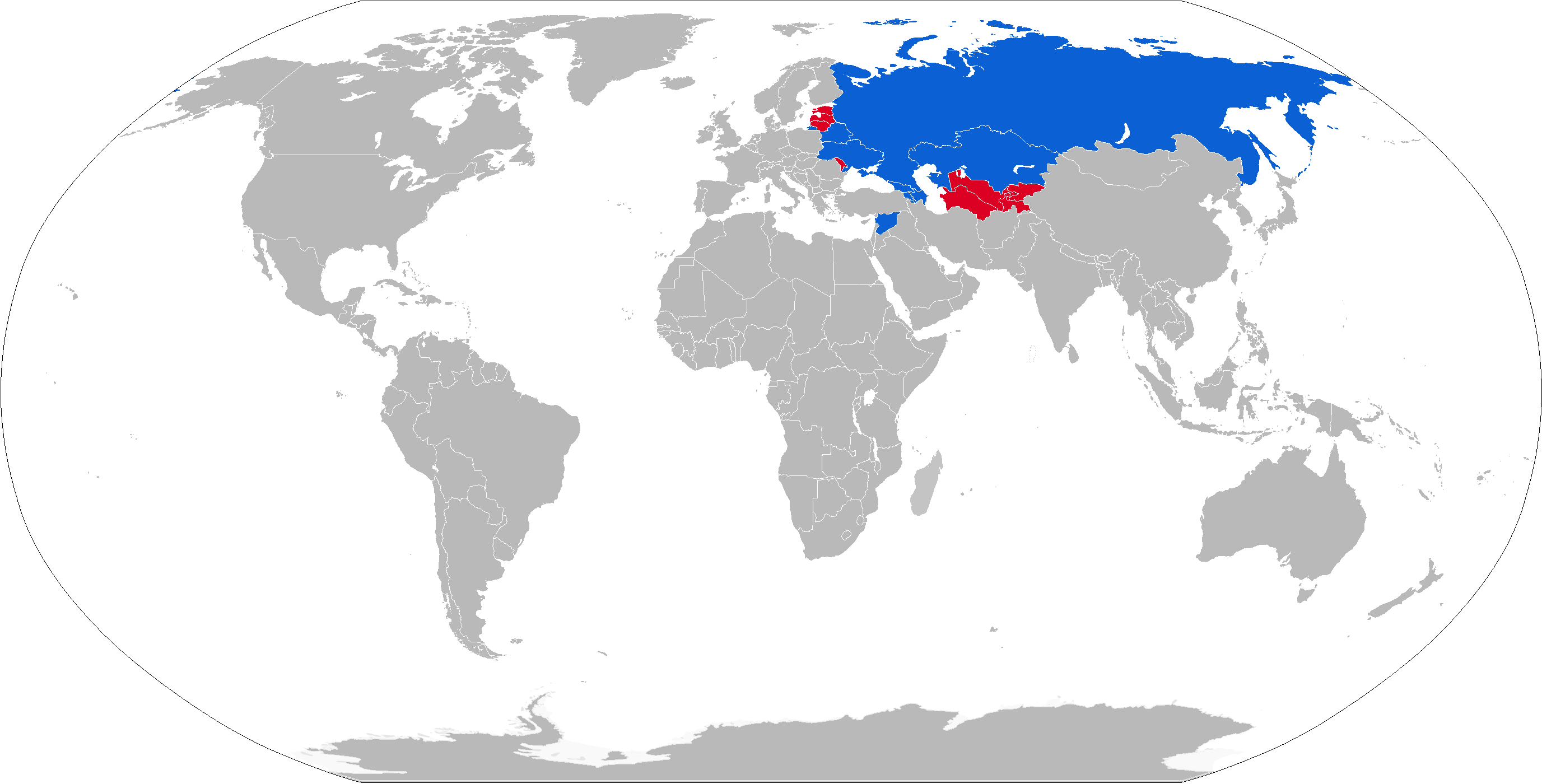 Map of 2A65 operators in blue with former operators in red